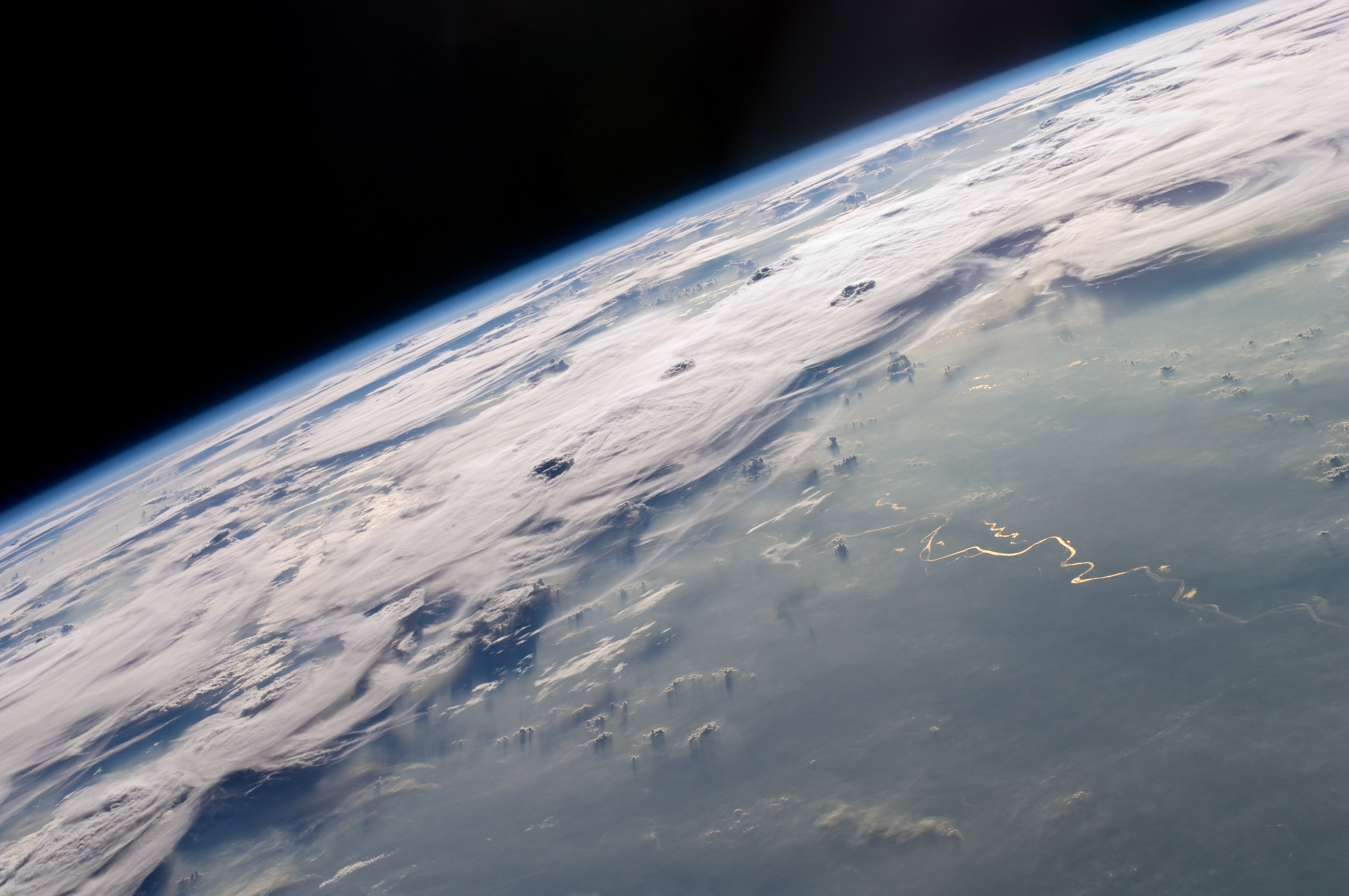 A picturesque line of thunderstorms and numerous circular cloud patterns filled the view as the International Space Station (ISS) Expedition 20 crew members looked out at the limb (blue line on the horizon) of the Earth. The region shown in the photograph includes an unstable, active atmosphere forming a large area of cumulonimbus clouds in various stages of development. The crew was looking west-south-west from the Amazon Basin, along the Rio Madeira toward Bolivia when the image was taken. The distinctive circular patterns of the clouds in the photograph are likely caused by the ageing of thunderstorms. Such ring structures often form during the final stages of storms development as their centres collapse. Sun-glint, the mirror-like reflection of sunlight off a water surface directly back to the camera on-board the ISS—is visible on the waters of the Rio Madeira and Lago Acara in the Amazon Basin. Widespread haze over the basin gives the reflected light an orange hue. The Rio Madeira flows northward and joins the Amazon River on its path to the Atlantic Ocean. A large smoke plume near the bottom centre of the image may be one source of the haze. The image was acquired with a Nikon D2Xs digital camera using an effective 48mm lens (28-70 mm zoom lens), and is provided by the ISS Crew Earth Observations experiment and Image Science & Analysis Laboratory, Johnson Space Centre.